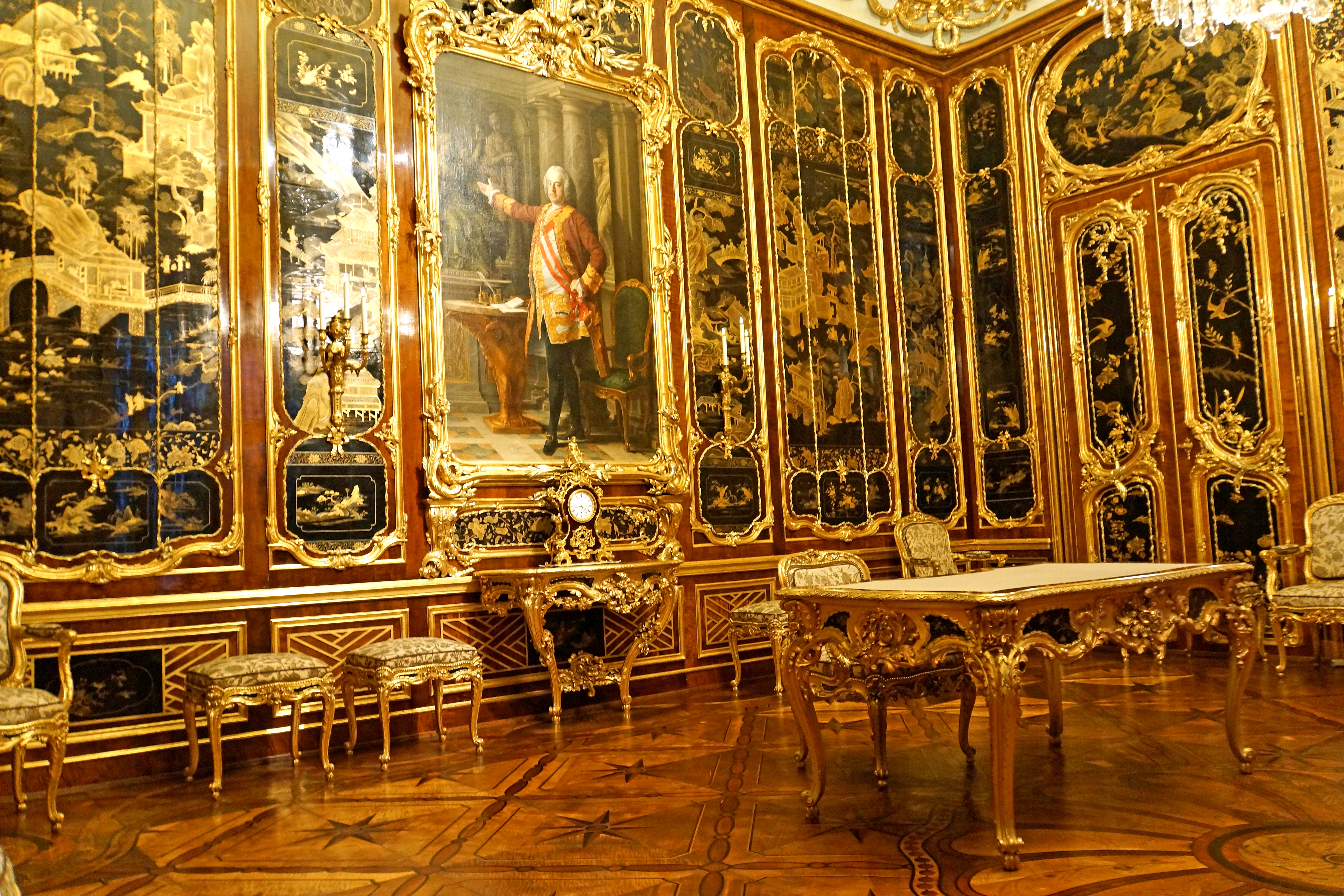 PLEASE, NO invitations or self promotions, THEY WILL BE DELETED. My photos are FREE to use, just give me credit and it would be nice if you let me know, thanks The Vieux-Laque Room was used by Emperor Franz Stephan as his study. Following his death in 1765, Maria Theresa had the Vieux-Laque Room remodelled as a memorial room. Black lacquer panels from Peking are set into walnut panelling and embellished with gilt frames. The empress commissioned several portraits for this room which still hang here. The posthumous portrait of her husband by Pompeo Batoni was completed in 1769, four years after the death of the emperor.